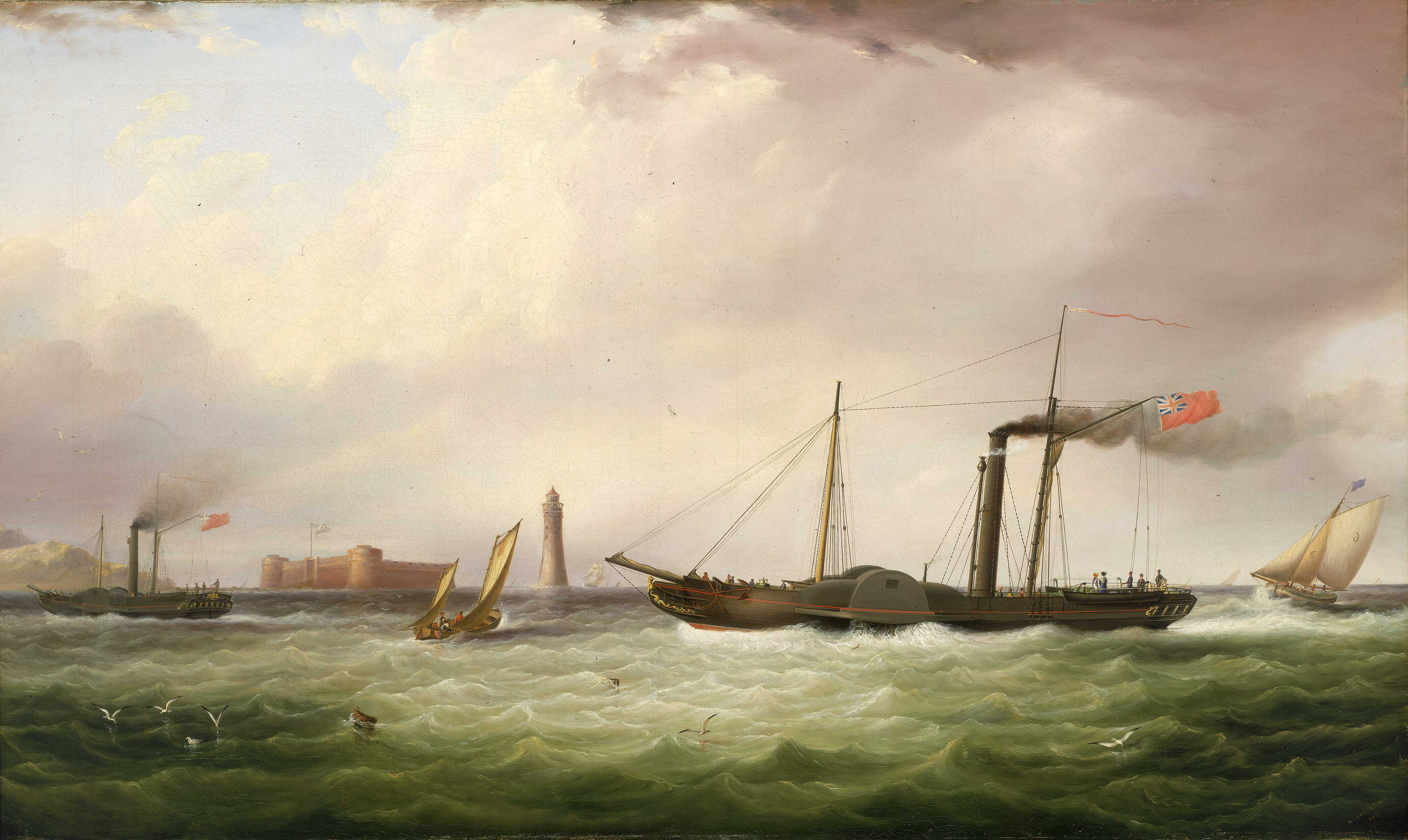 The Paddle Steamer 'Ariel' A scene showing shipping on the Wirral, now known as New Brighton, Liverpool. In the background is the Perch Rock Fort and Lighthouse. Other shipping is also depicted, including another paddle steamer on the left, together with smaller sailing boats. The paddle steamer in the painting has always thought to have been the ‘Ariel’. Formerly called the ‘Arrow’ she was built in 1821-22, and went into straight into service at Dover. She was transferred to the mail service in April 1825 and it is possible that she is shown visiting Liverpool between 1825-33 en route for Ireland. The ‘Arrow’ was taken over by the admiralty 1837 and renamed ‘Ariel’. She continued to be the Dover packet until 1846. A steam packet service from Liverpool to Kingstown was commended by the PO August 1826. There were four vessels on this route, ‘Dolphin’, ‘Comet’, ‘Etna’ and ‘Thetis’ and were built large enough to enable them to compete with steamships of private companies operating from Liverpool to Ireland. Since this painting shows a furled sail behind the funnel and the riser pipe from the boiler safety valves it is more likely to be one of the larger Liverpool Post Office packets such as the ‘Lightning’ which was the first PO steam packet to be ordered from Evans of Rotherhithe in 1820. The painting is signed and dated ‘Walters and Son 1831’. The Paddle Steamer 'Ariel'